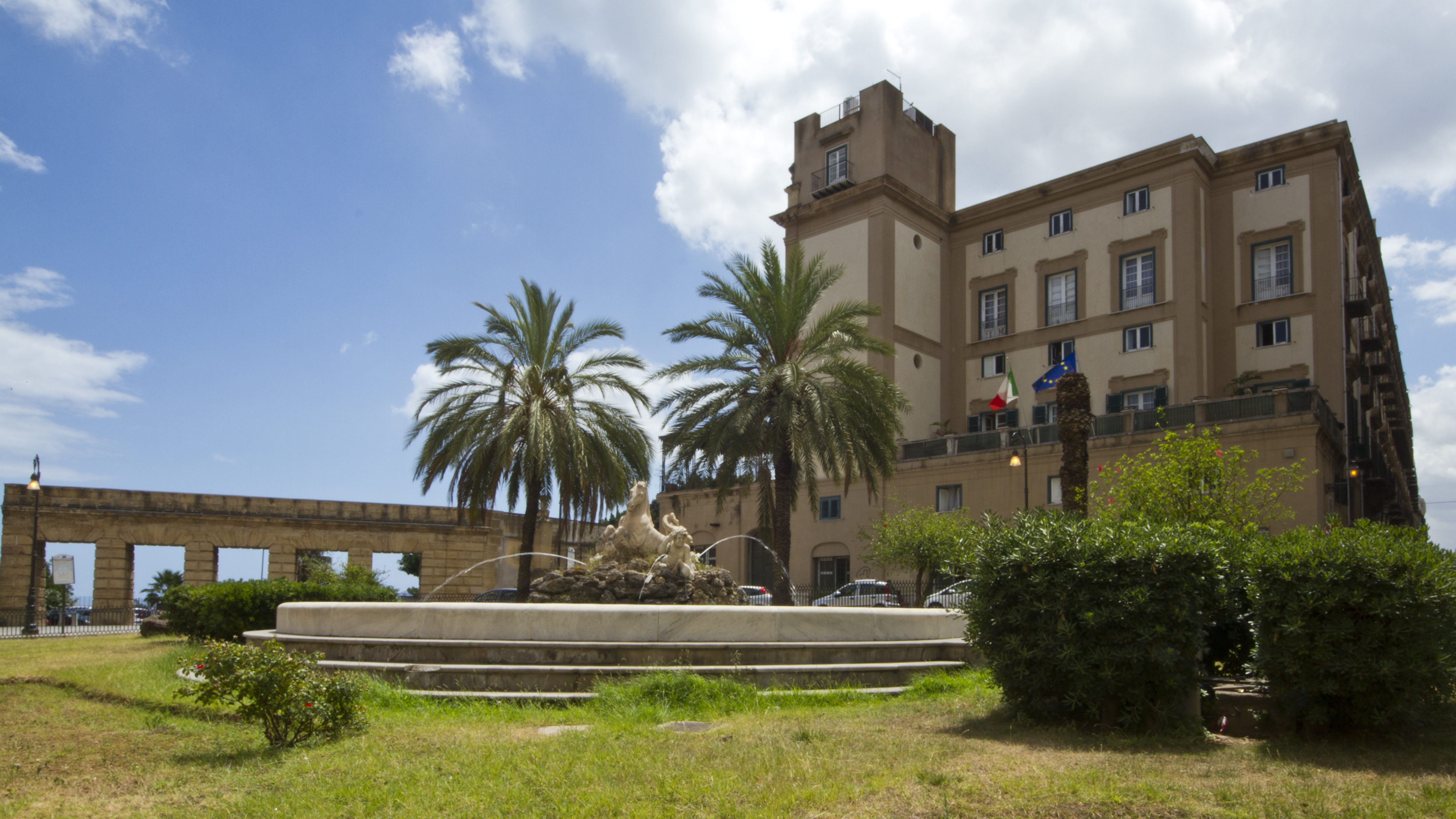 Fountain of Cavallo Marino, Kalsa, Palermo, Sicily, Italy